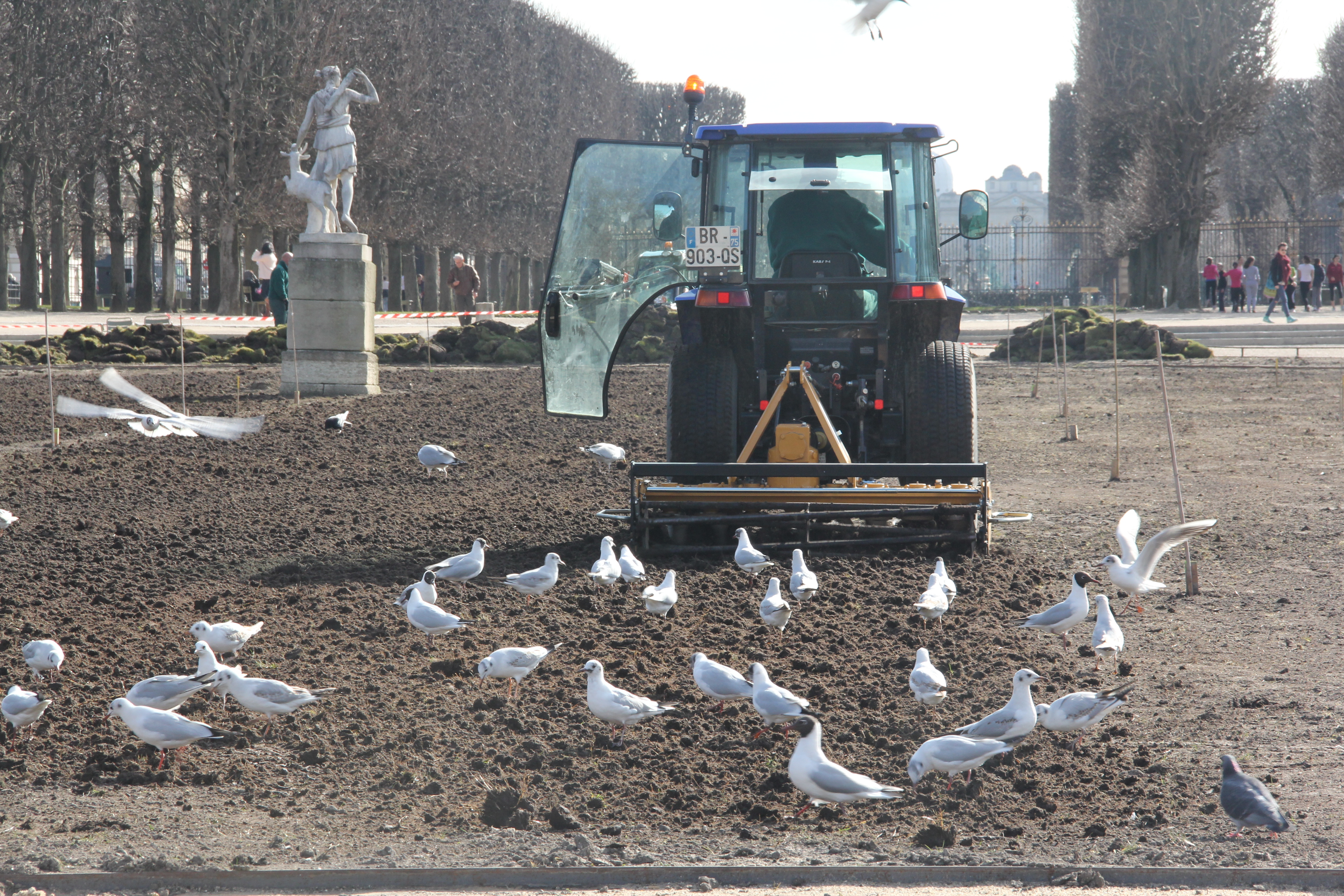 A tractor in the Luxembourg Gardens, Paris.